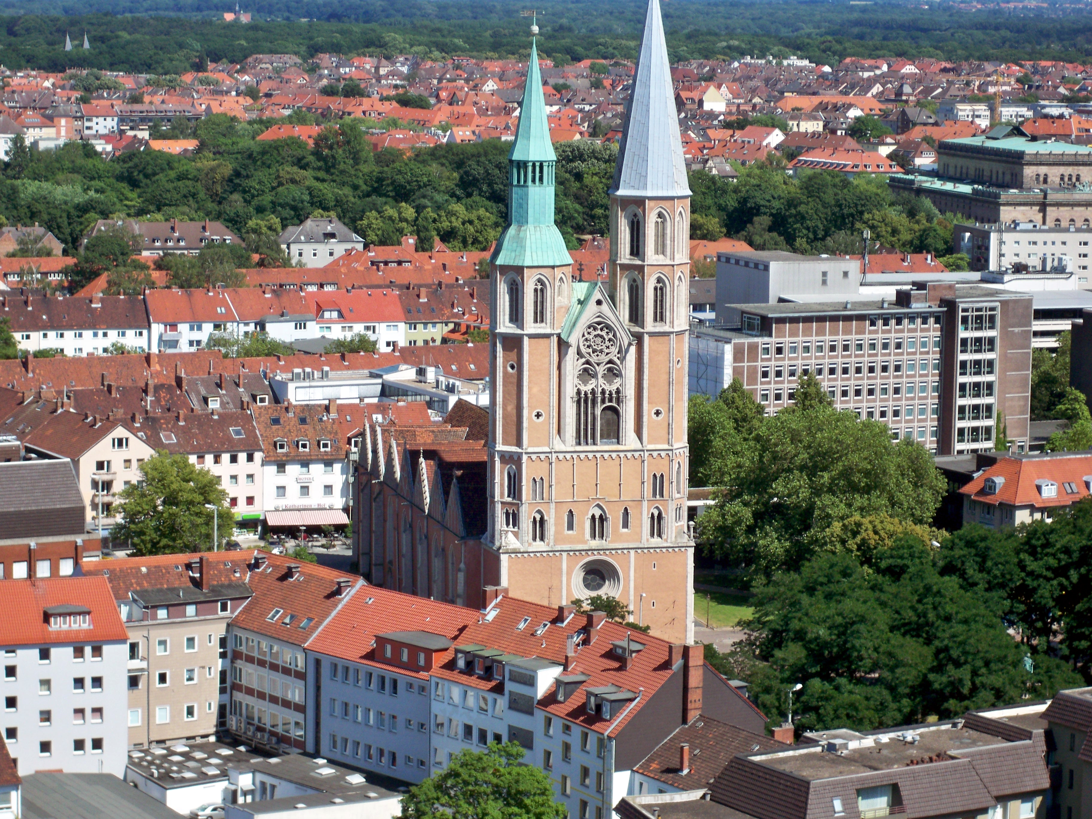 St. Katharinen, Braunschweig, Germany, seen from tower of St. Andreas church